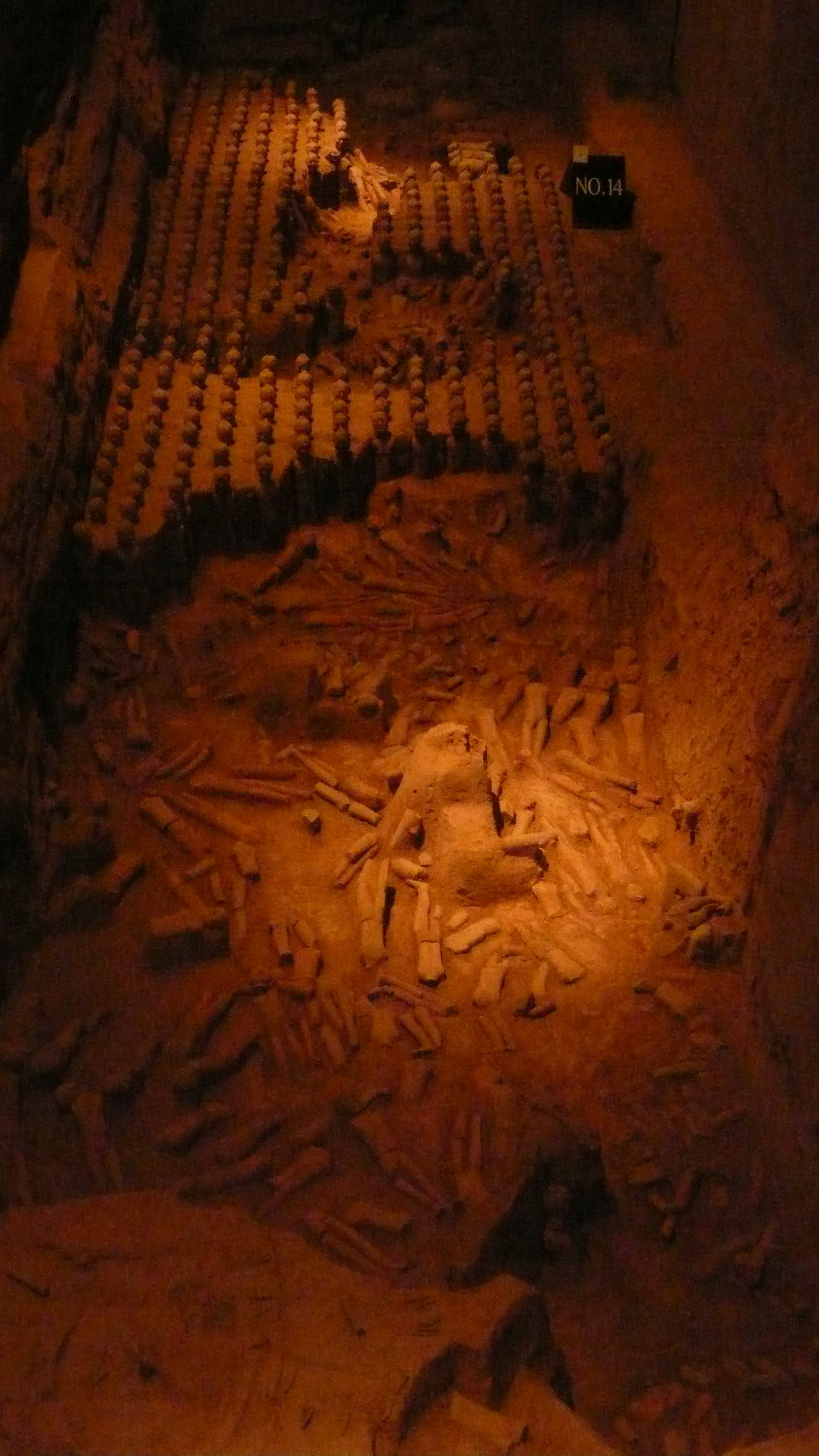 Han Yang Ling - Mausoleum of Jingdi, Han Emperor, Xianyang, near Xi'an